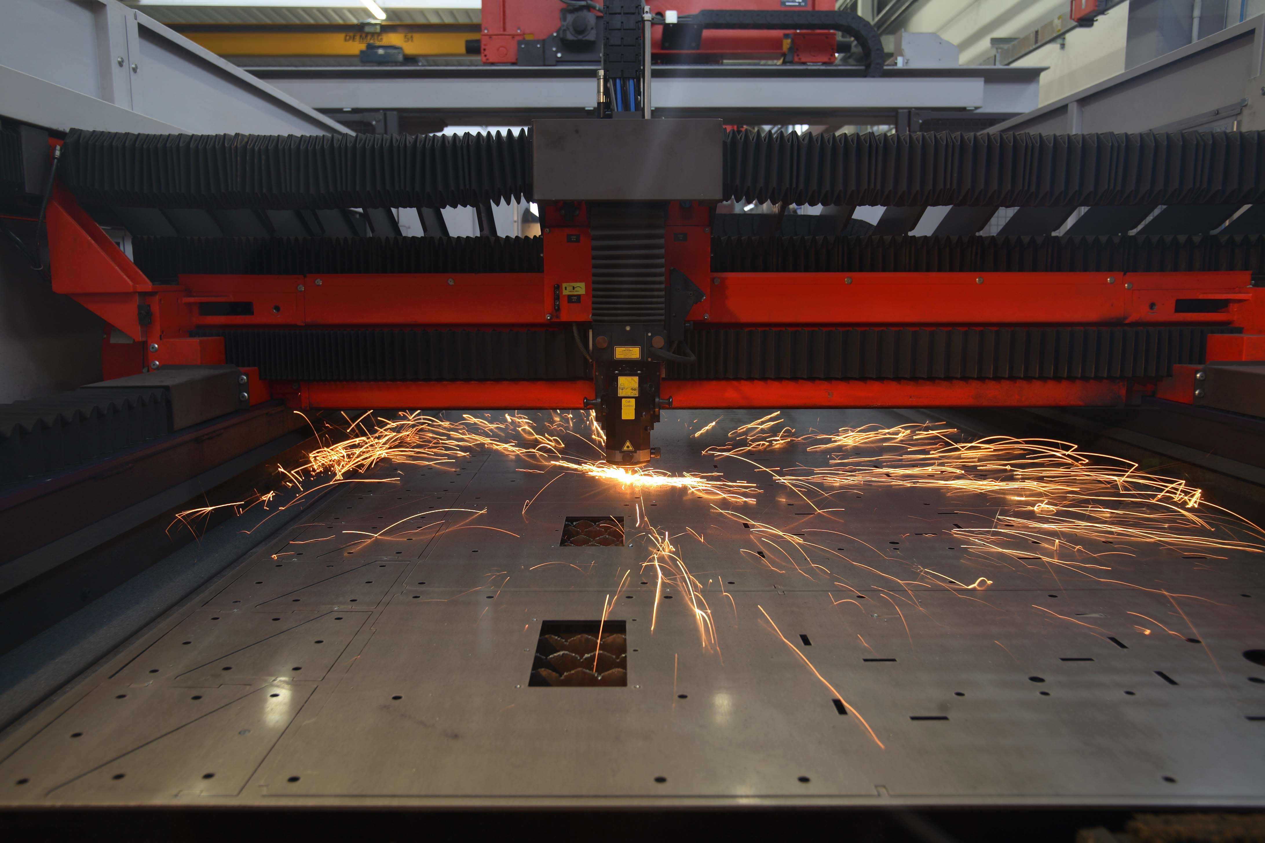 PTM TECHNOLOGY WORKSHOP